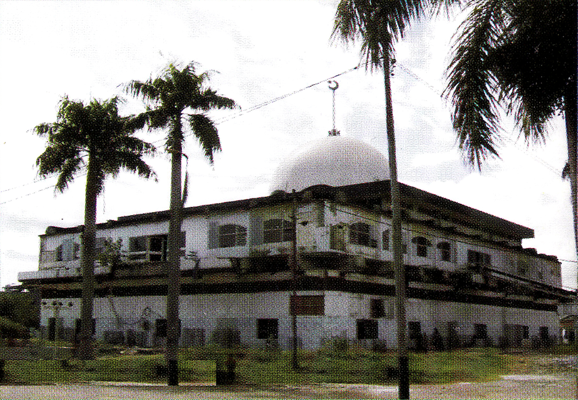 Nurul Iman Mosque in Padang City before demolition.